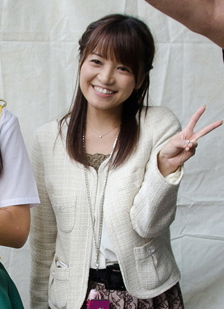 Japanese TV presenter Tomomi Kuno at the 18th Railway Festival in Hibiya Park in Tokyo